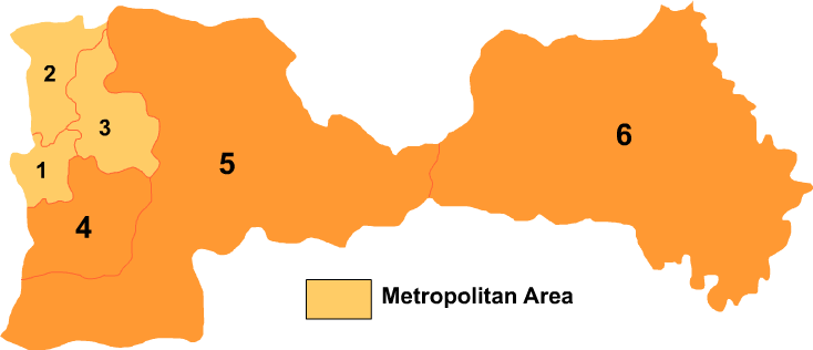 Map of Benxi in Liaoning province